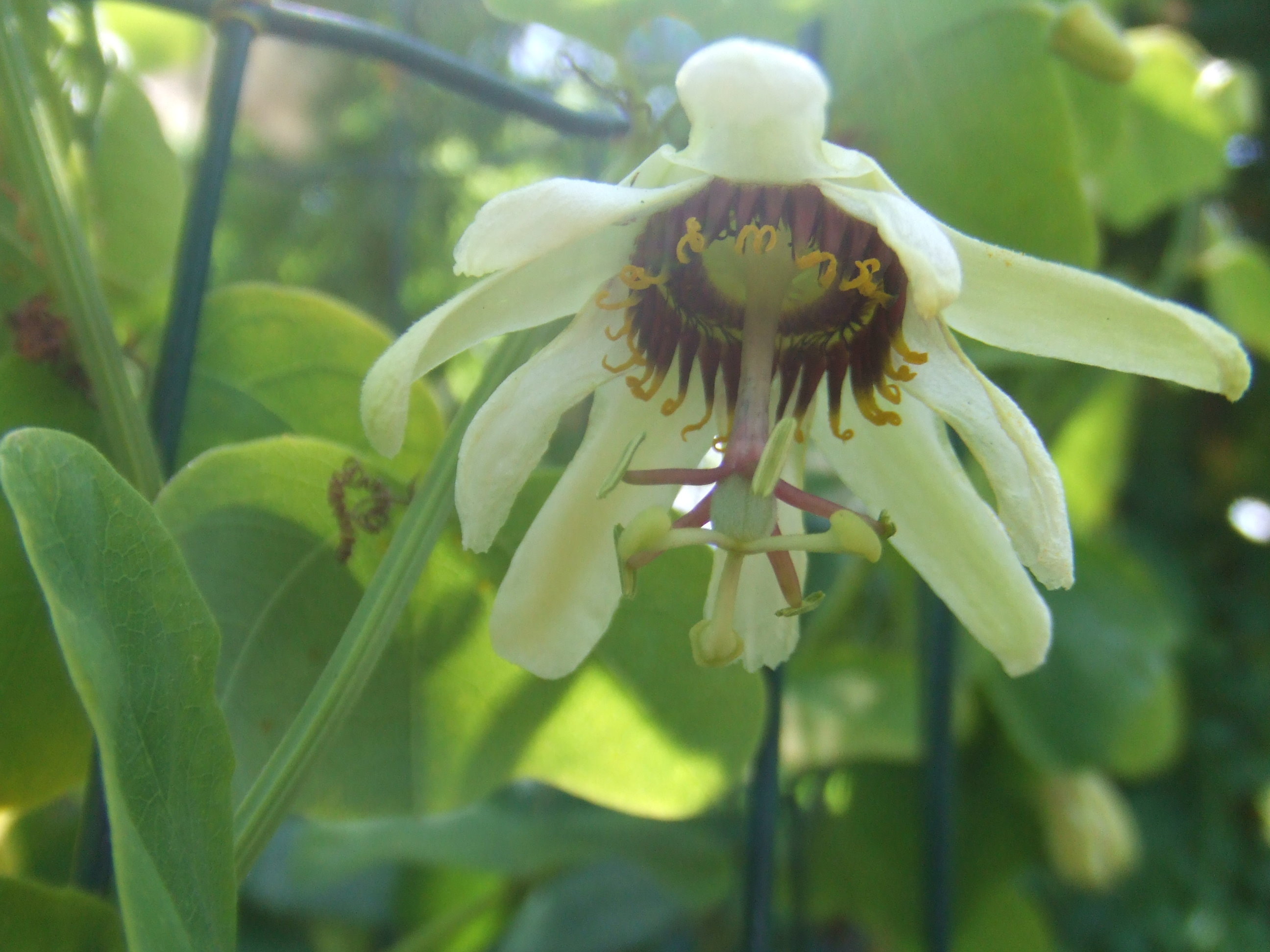 Passiflora yucatanensis, picture taken at the Passiflorahoeve in Harskamp, The Netherlands